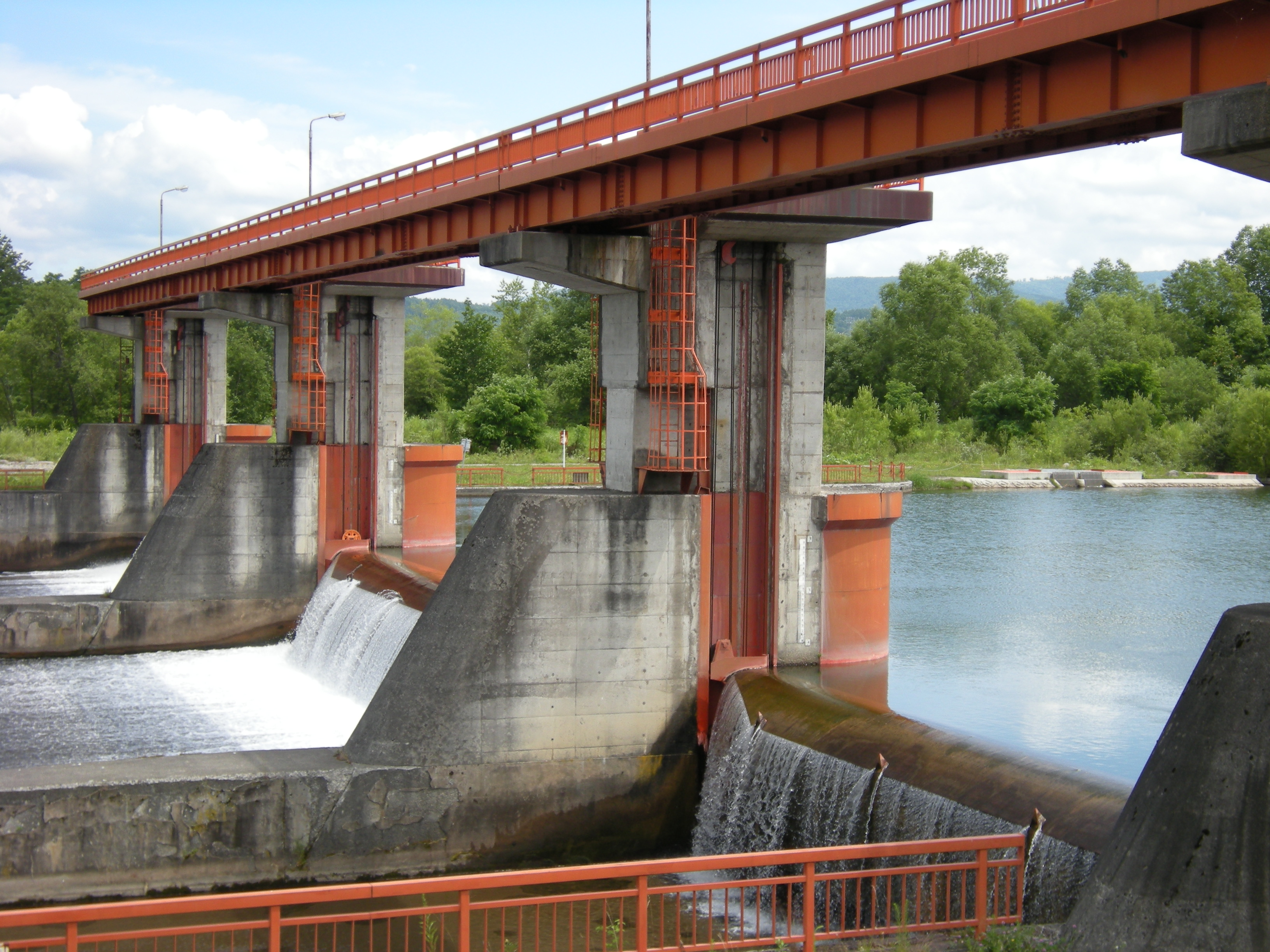 Aibetsu Head Works (Aibetsu Toshuko) on the Ishikari River in Aibetsu Town, Hokkaido, Japan